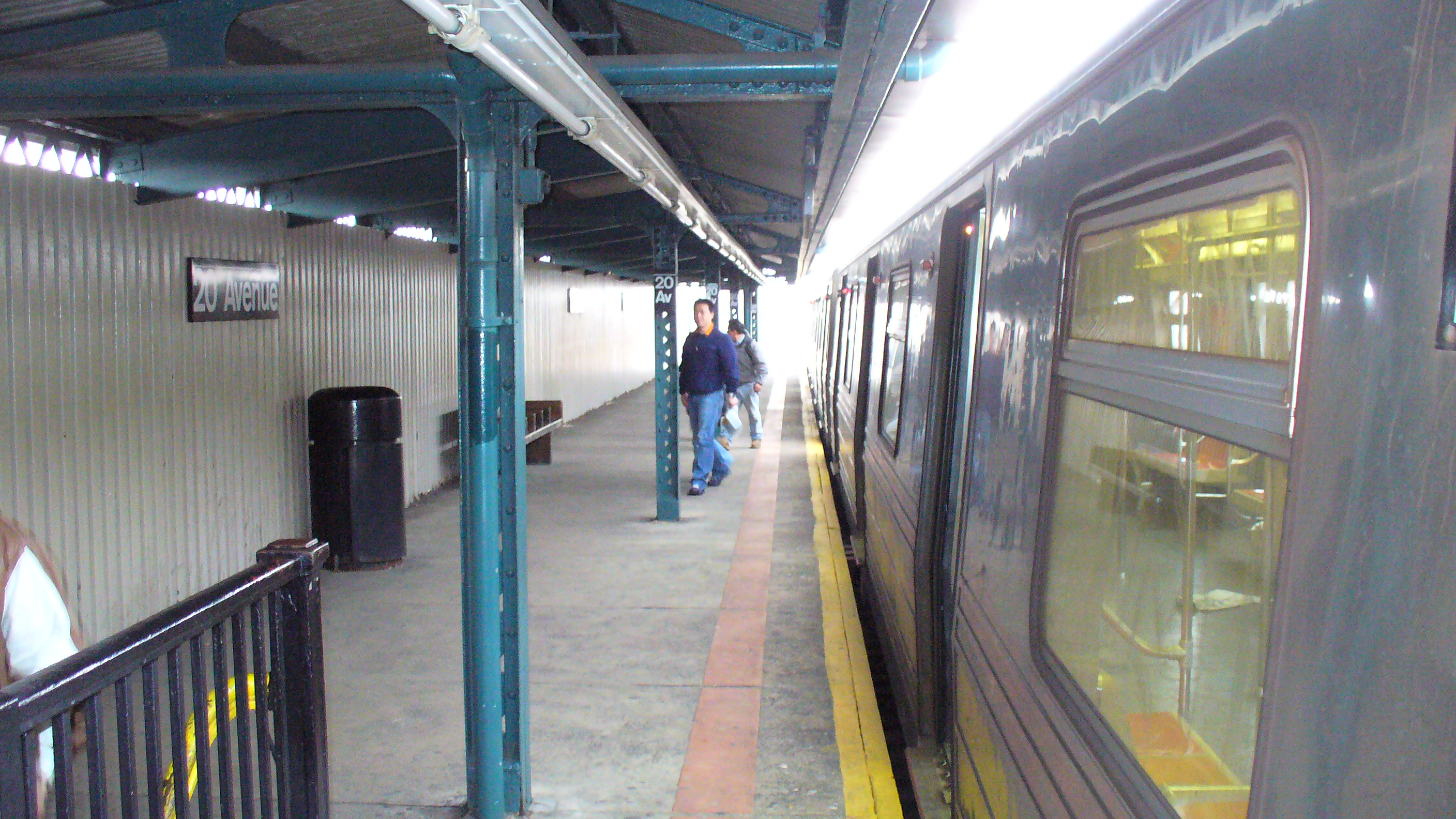 20th Avenue D Line NYC Subway Station by David Shankbone